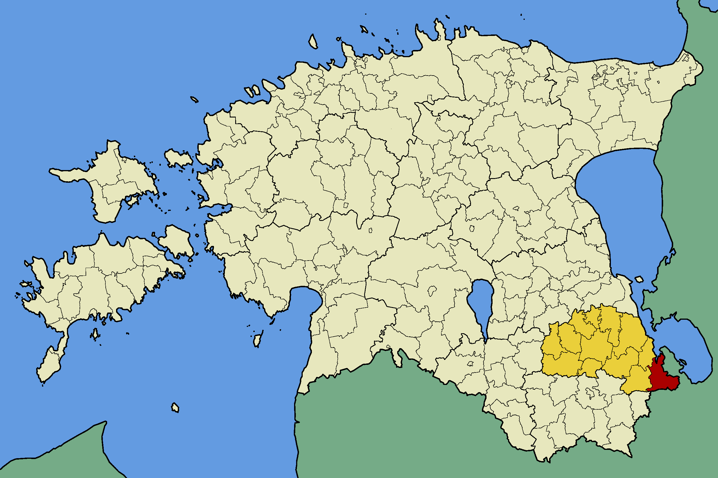 Map of Estonia with borders of municipalities (parishes). Põlva county and Värska municipality emphasized.